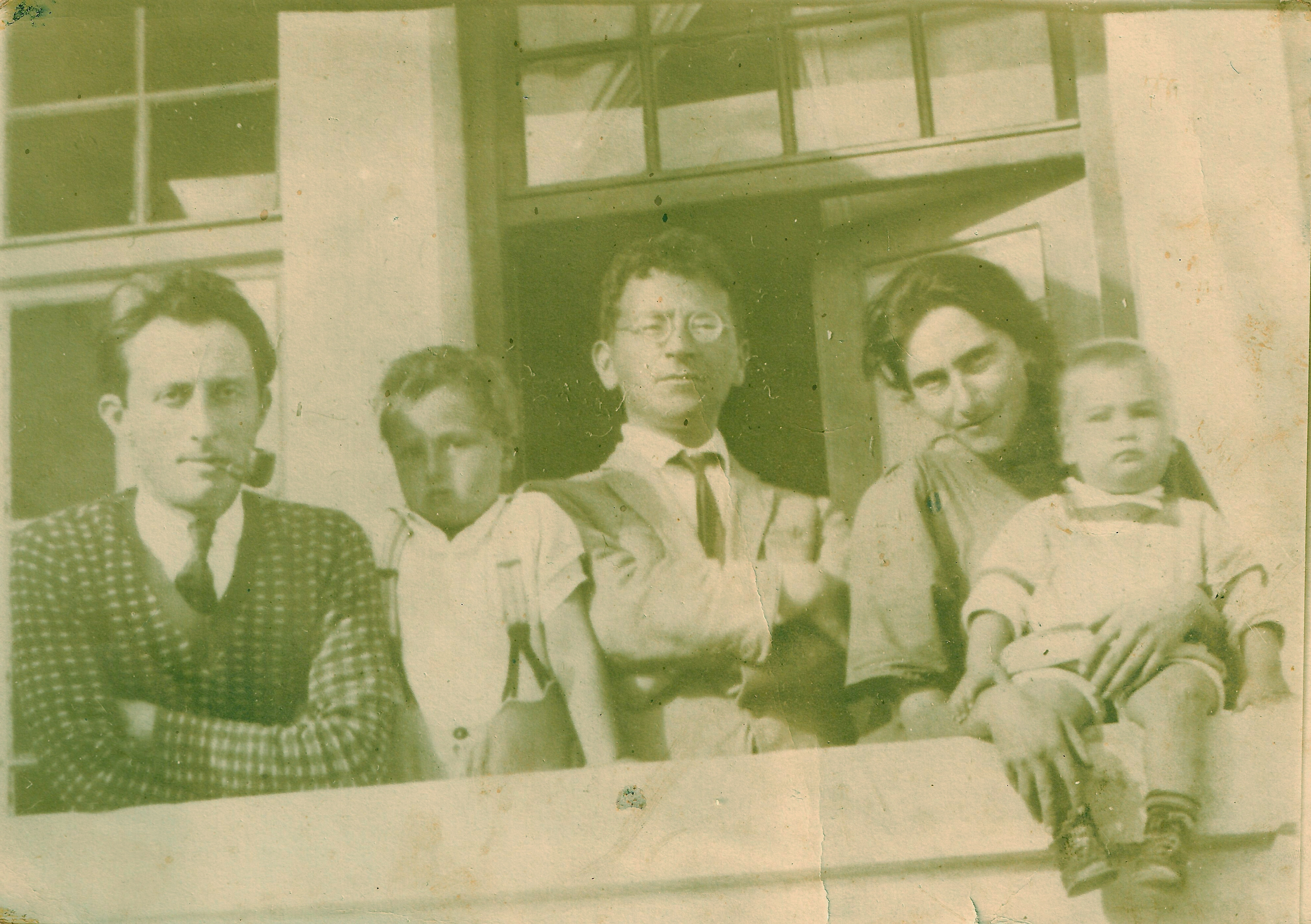 "Yeivin family with Uri Zvi Greenberg on the poarch in Tel aviv"